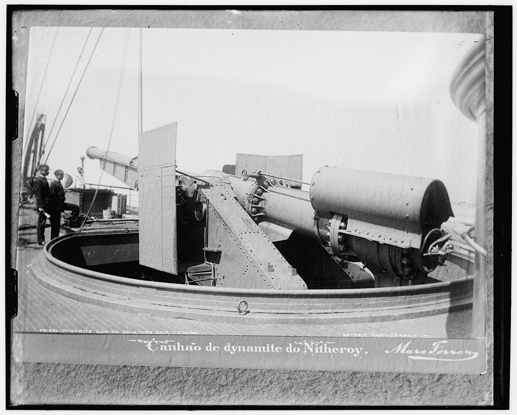 Photograph of dynamite gun on Brazilian warship, Nitheroy [Nictheroy]. 1 negative : glass ; 8 x 10 in.